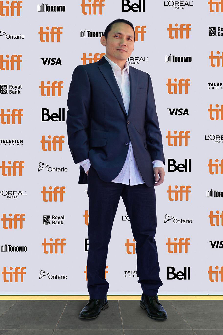 Rabyoung Thonden Gyalkhang Tibetan film actor at the world premiere of the award winning film "The Sweet Requiem" Directed by Tenzing Sonam and Ritu Sarin at 2018 Toronto International Film Festival.